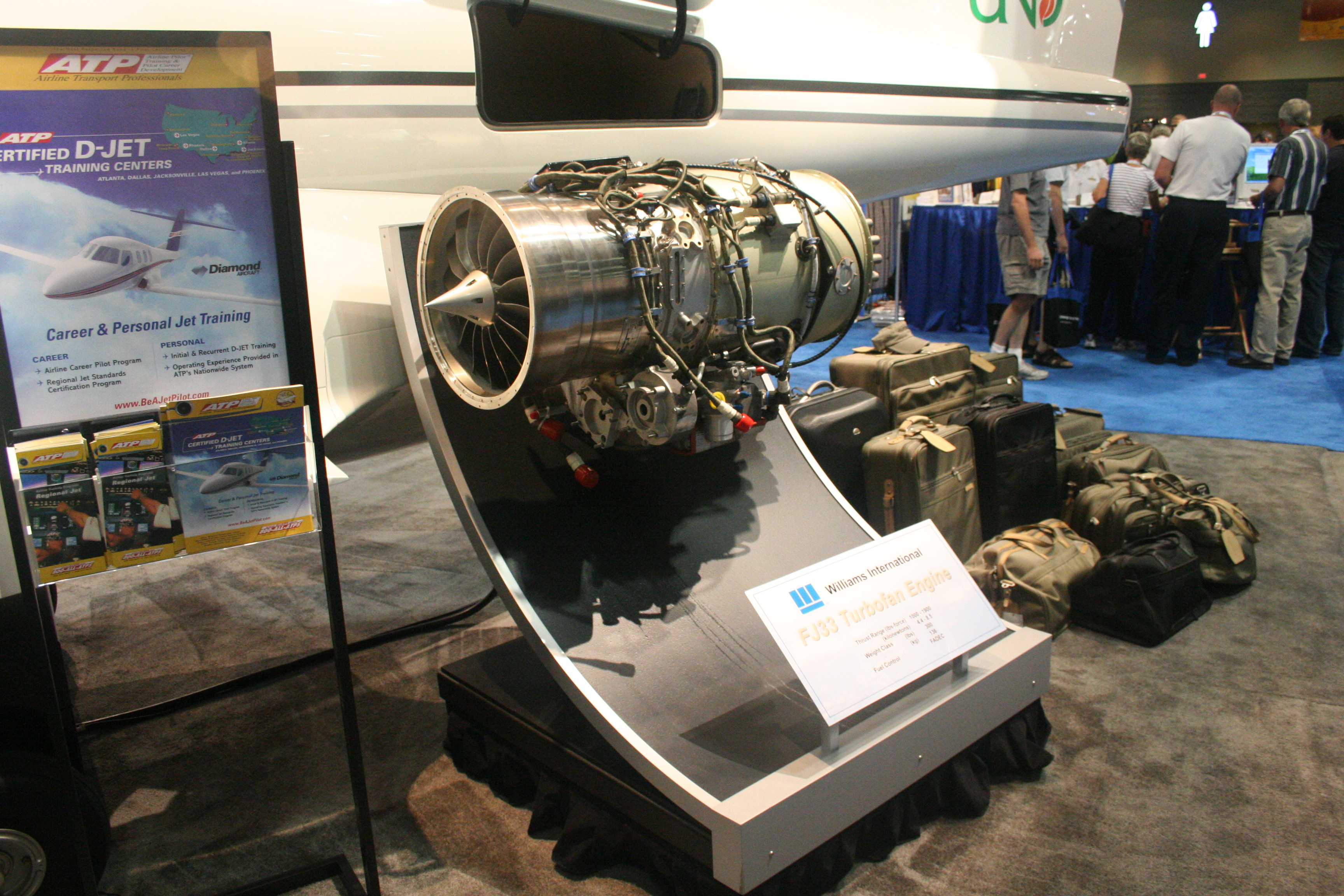 Williams FJ33-4A Engine for the Diamond D-JET